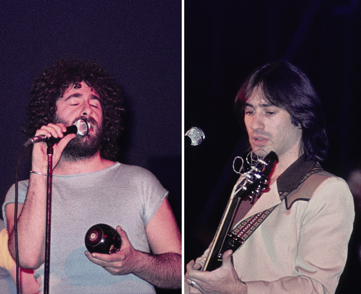 Godley & Creme, an English rock duo consisted of Kevin Godley and Lol Creme. Kevin Godley - File:Kevin Godley.jpg Lol Creme - File:Lol Creme 1976.jpg